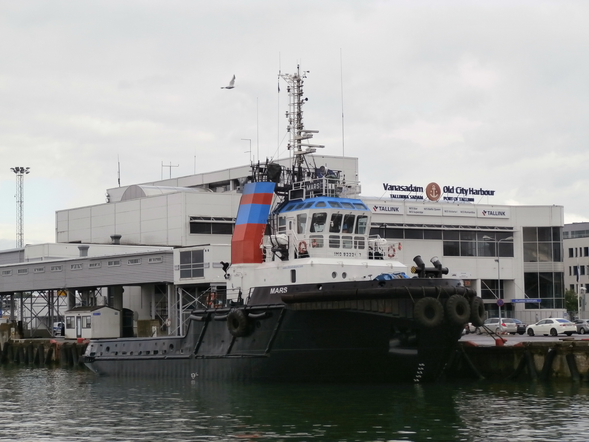 Mars at quay 8 in Old City Harbour, Tallinn 26 June 2015